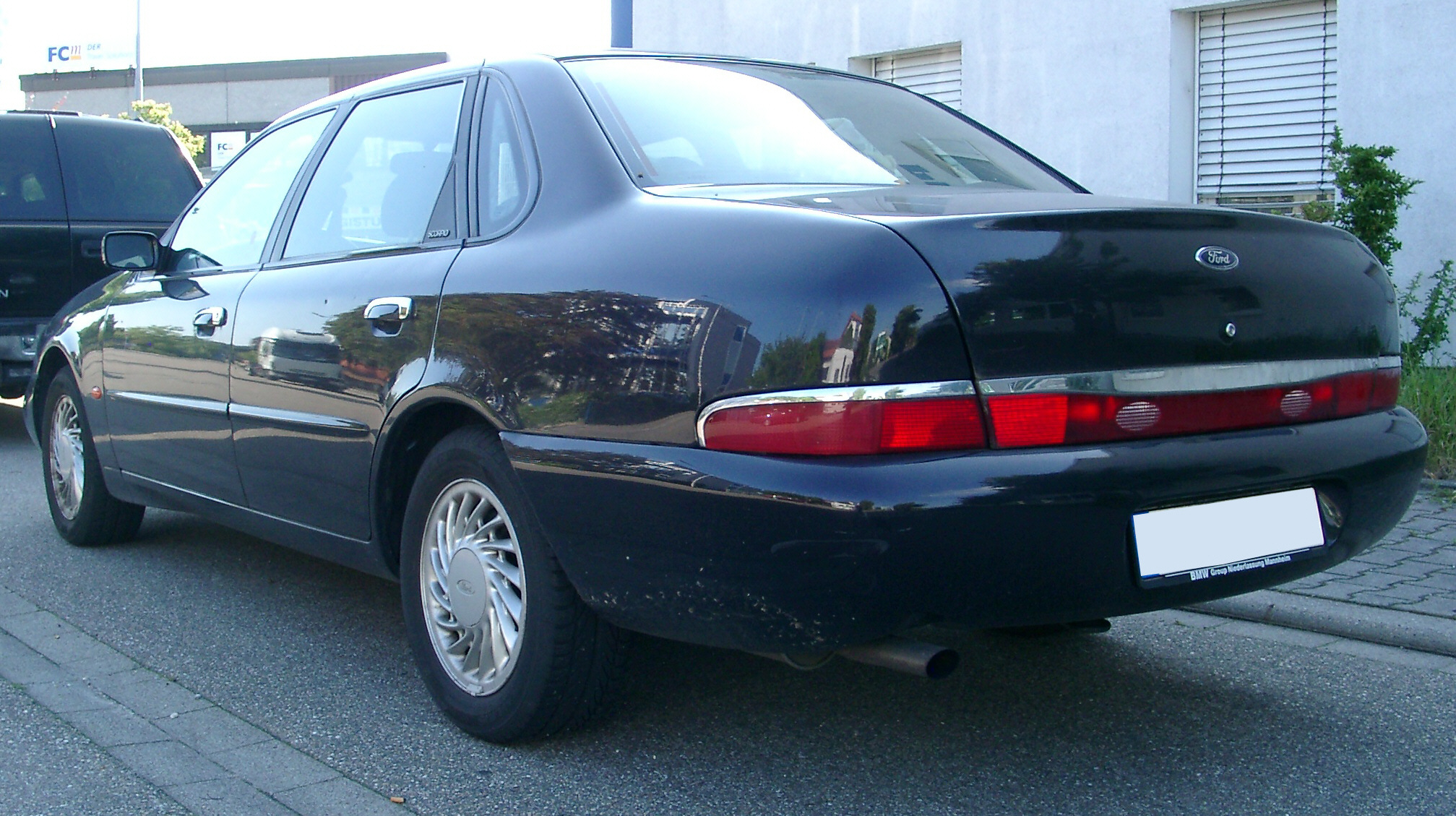 Ford Scorpio 2. Generation